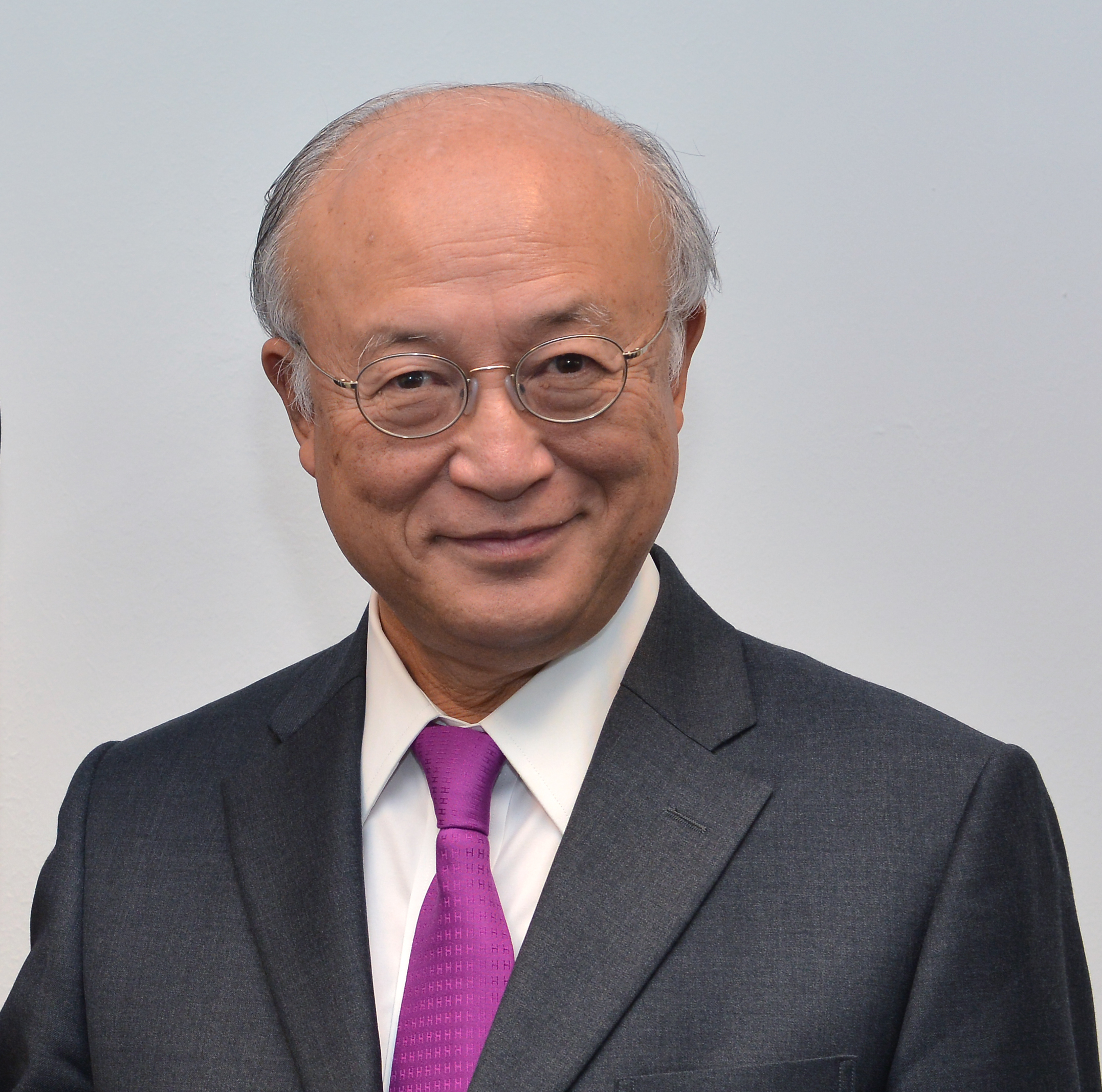 IAEA Director General Yukiya Amano at the IAEA Headquarters in Vienna, Austria. 28 May 2014. Photo Credit: Dean E. Calma / IAEA